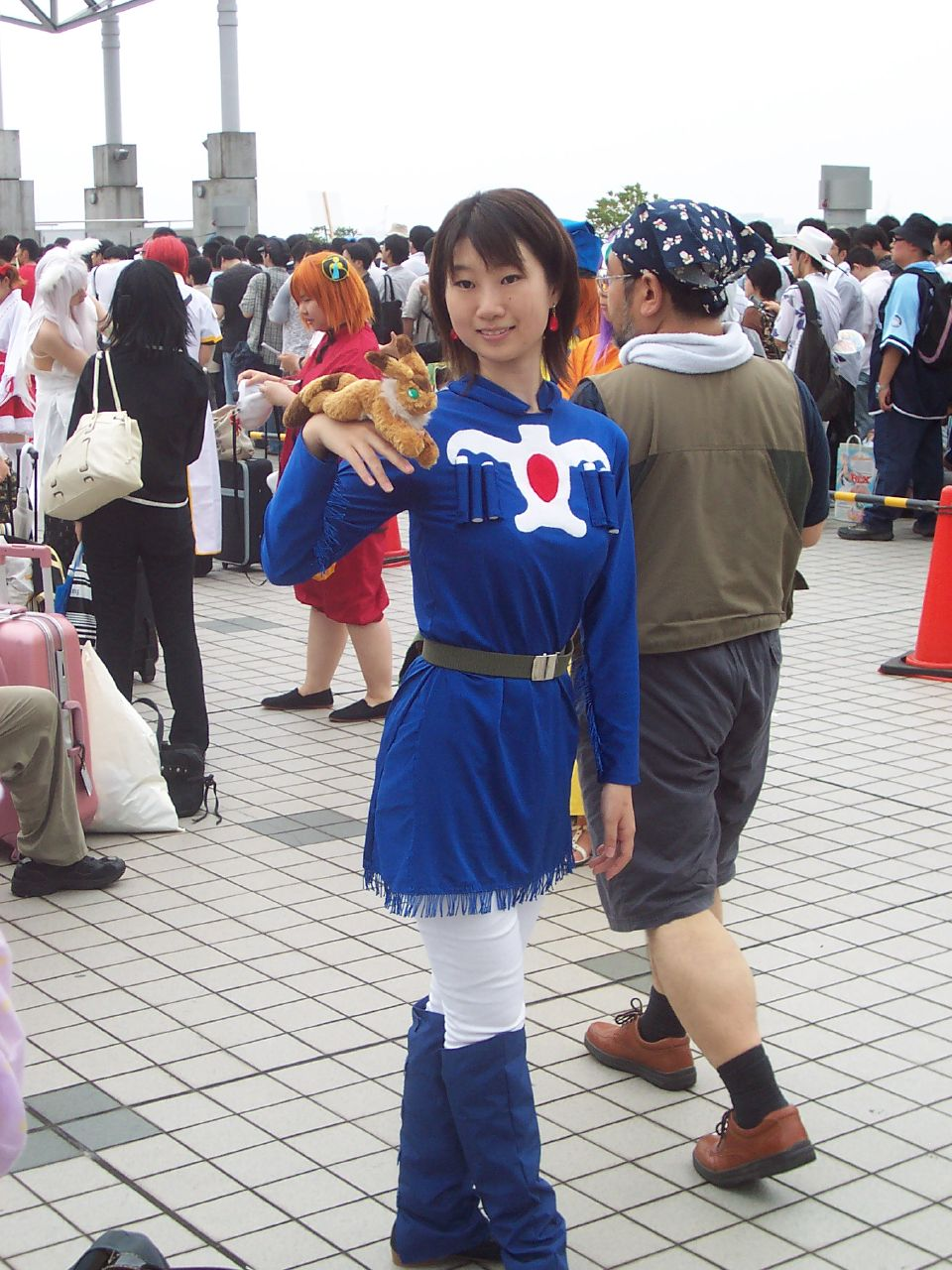 Cosplay : Nausicaä from Nausicaä of the Valley of the Wind - 70th Comiket - Summer 2006